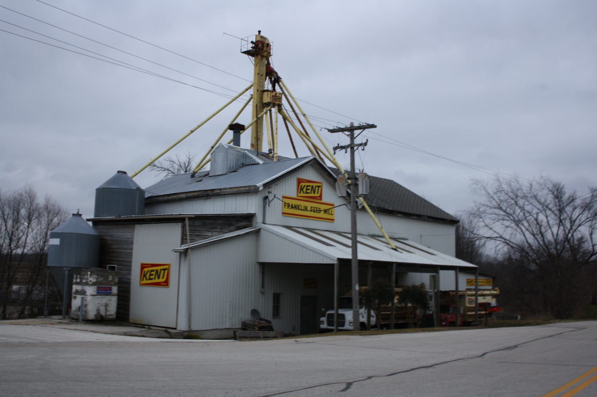 Looking at the Franklin Feed Mill in Franklin, Sheboygan County, Wisconsin. It is listed on the National Register of Historic Places.